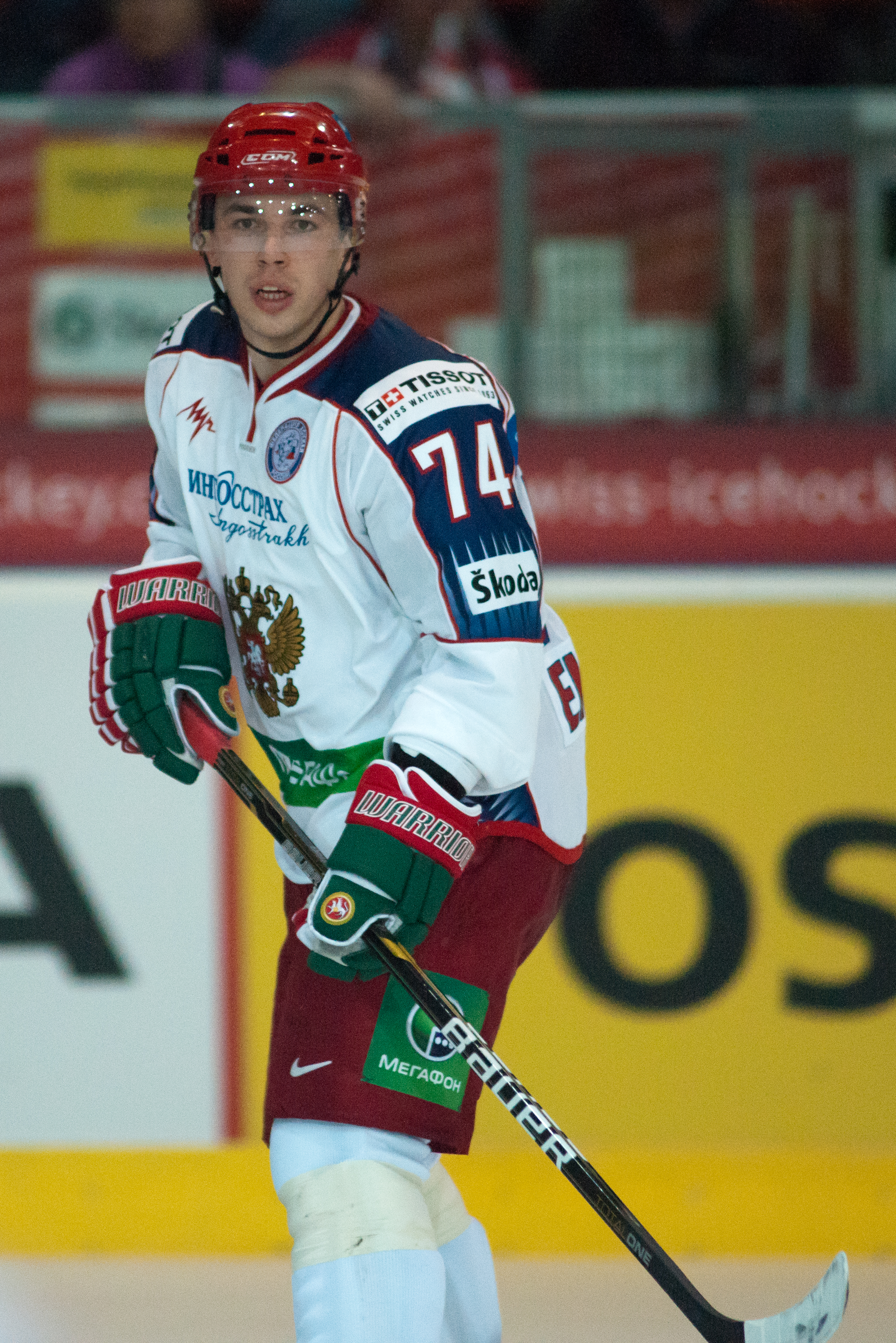 The making of this document was supported by Wikimedia CH. (Submit your project!) For all the files concerned, please see the category Supported by Wikimedia CH. Switzerland vs. Russia, 8th April 2011